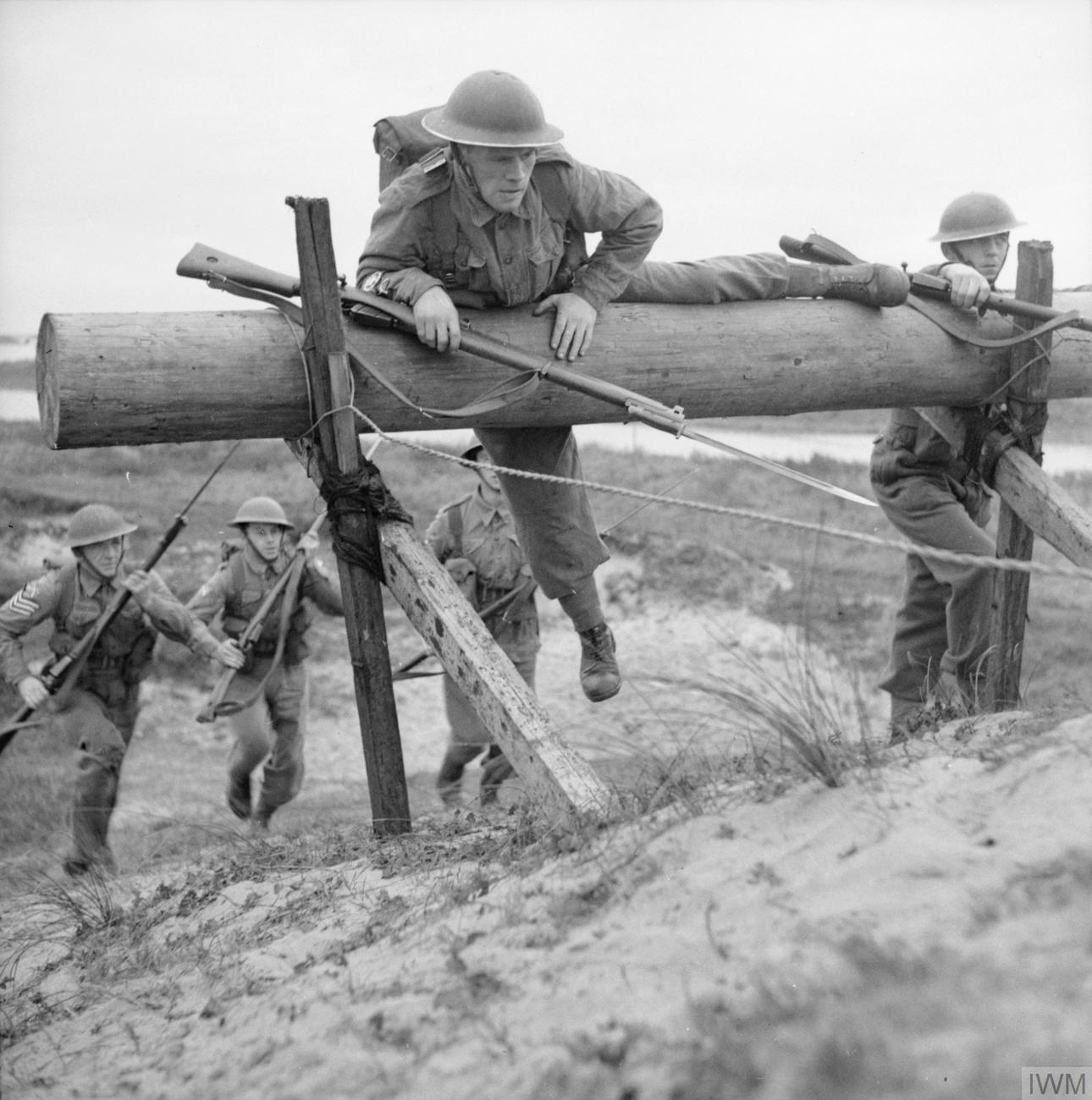 Troops destined for the Middle East negotiate an obstacle during desert training at Altcar in Lancashire, 13 November 1942.